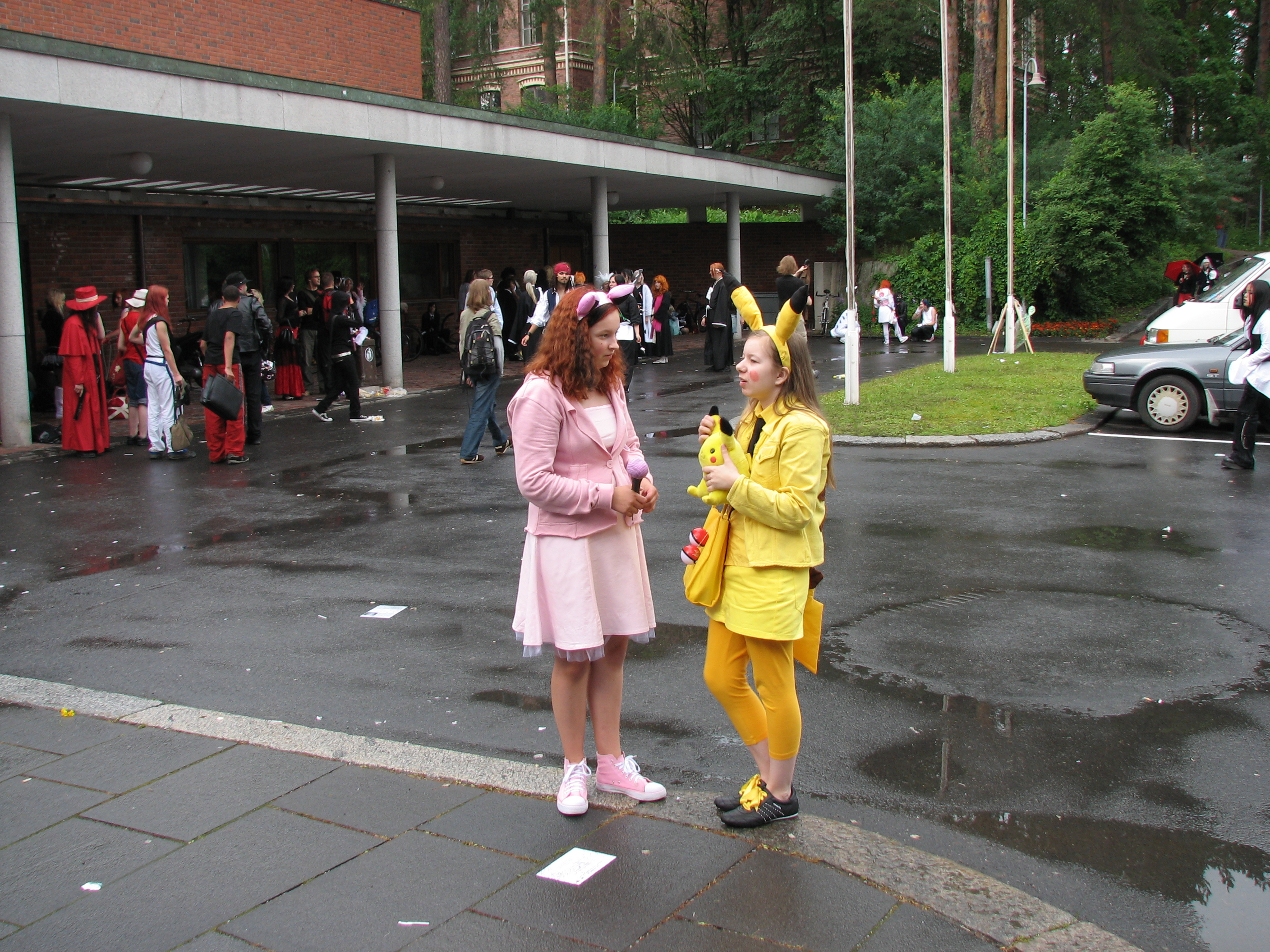 Two young women cosplaying as anime characters outside the University of Jyväskylä during Animecon 2007.